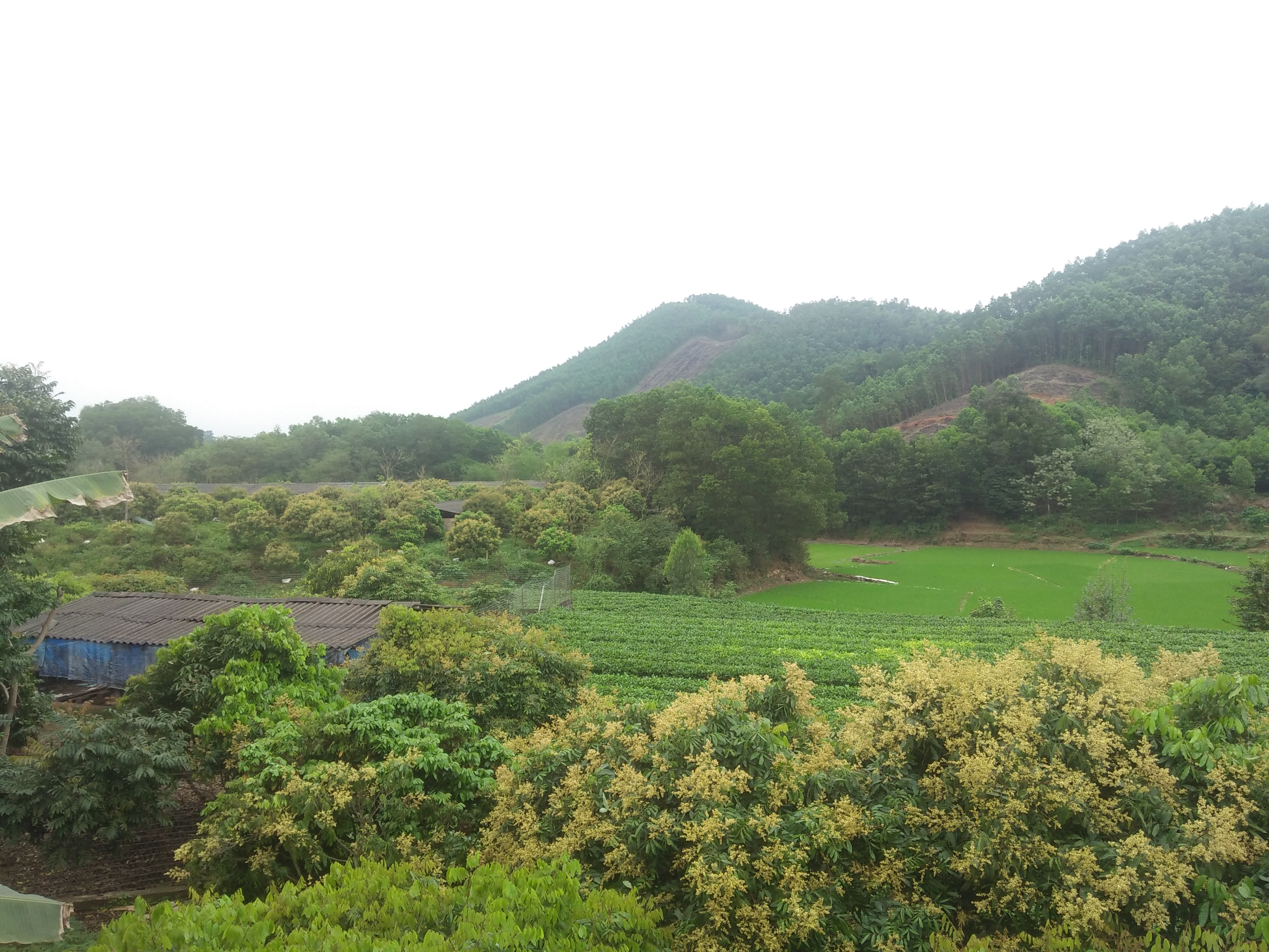 Cây vải thiều được trồng ở xã Hoá Trung